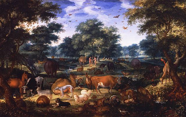 The Garden of Eden